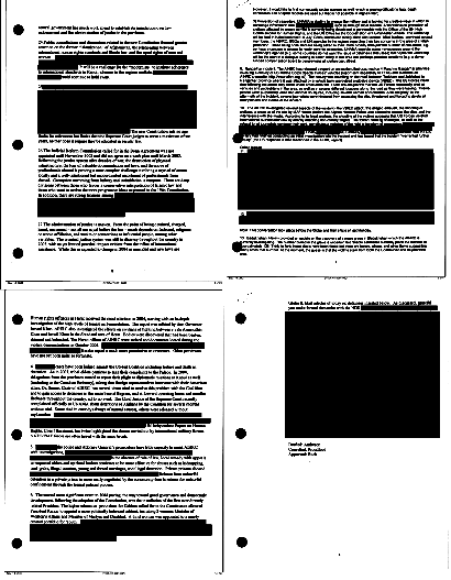 Some redacted documents that I contrasted beyond recognition, as to only illustrate redacted documents, and to avoid any copyright.